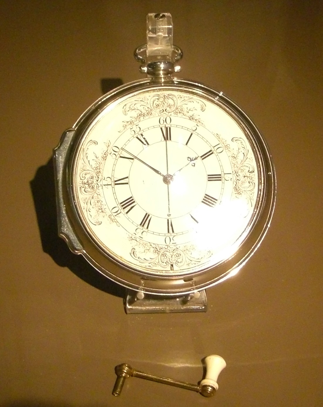 Harrison's chronometer on display at National Maritime Museum in Greenwich